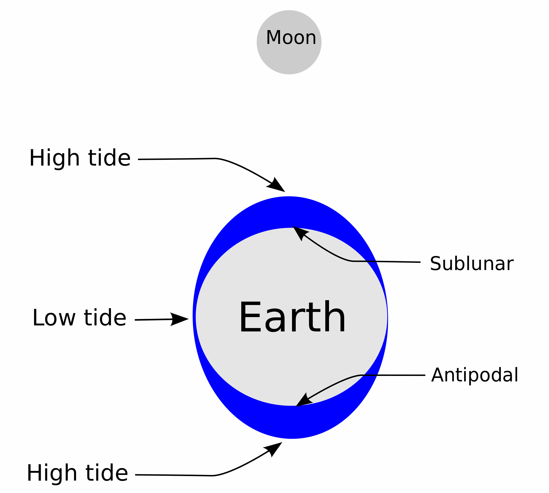 Schematic of tidal action.